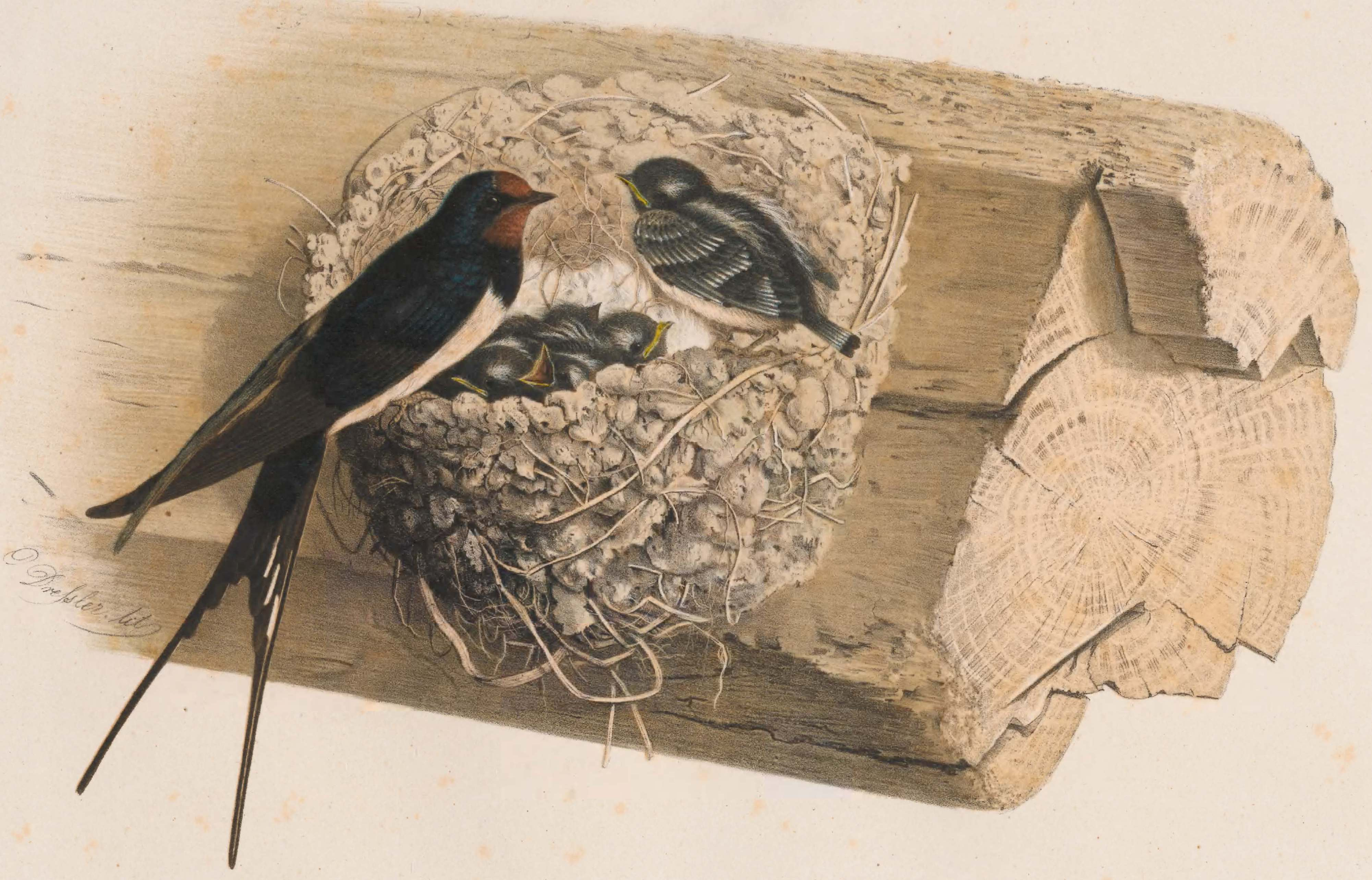 Hirundo rustica. Eugenio Bettoni